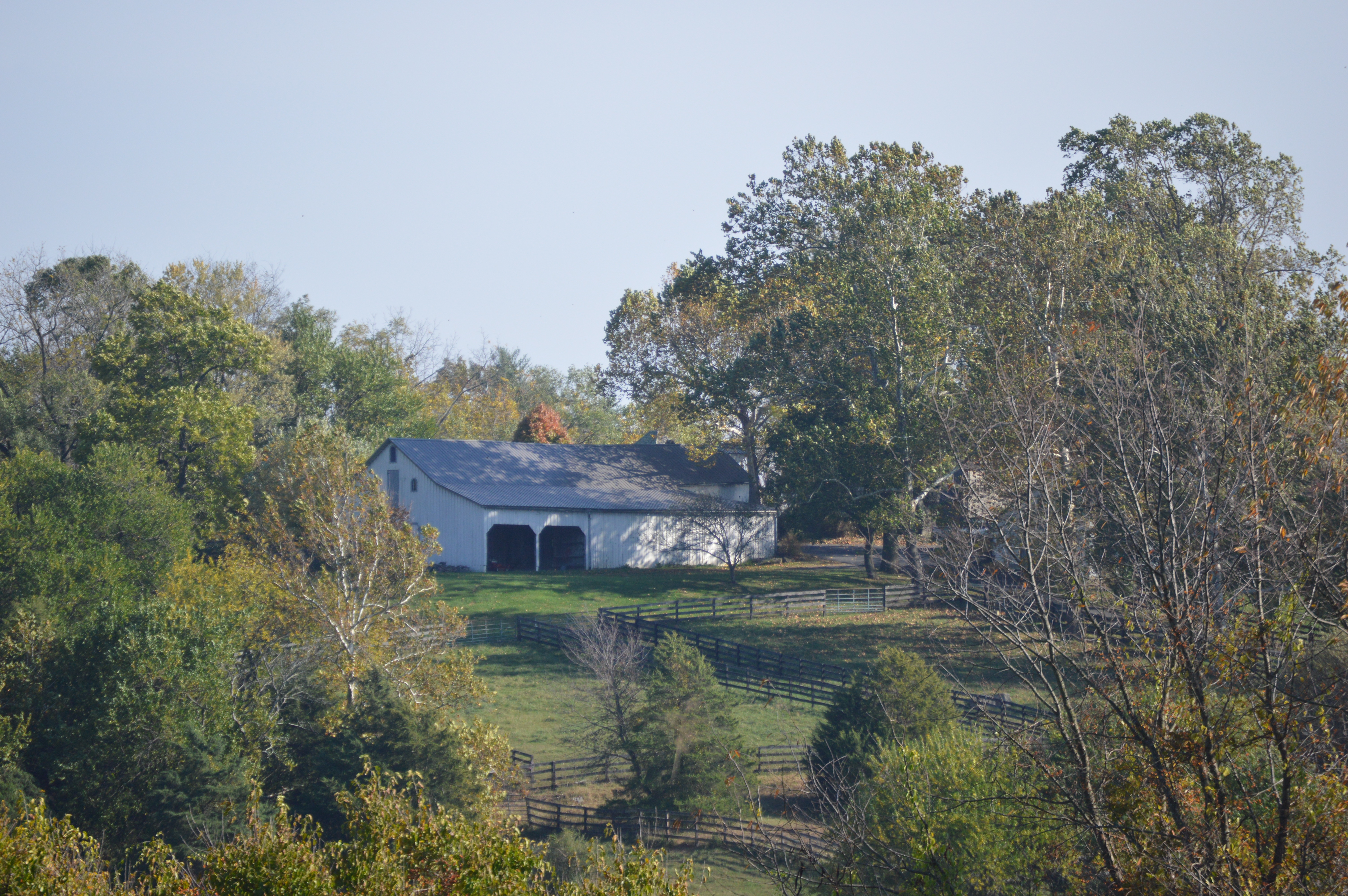 Distant view from the west of one of the barns at Cobble Hill Farm, located at 101 Woodlee Road in Staunton, Virginia, United States. The farm is listed on the National Register of Historic Places.